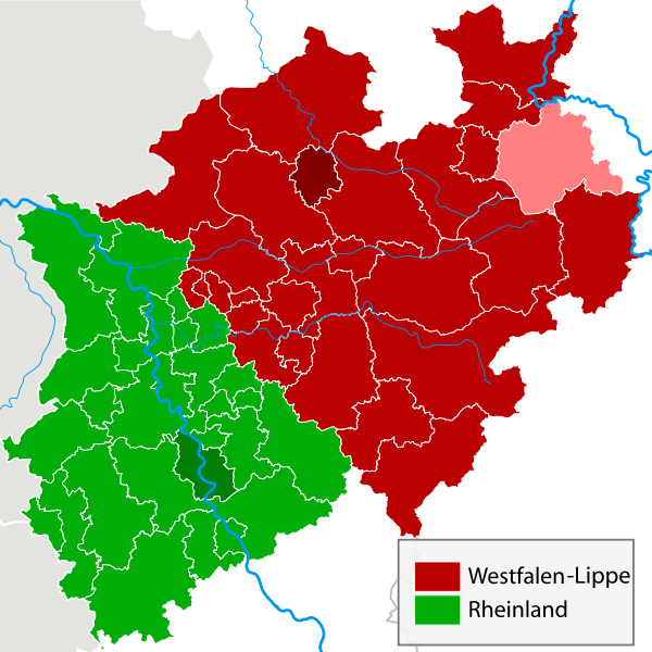 A map showing the two divisions of North Rhine-Westphalia (as on original) but with Lippe area coloured pink so as to help with the communication of the coat of arms of North Rhine-Westphalia which contains references to these three areas. Note that Lippe is part of Westphalia normally, highlighted here because of historical significance. A map showing the two divisions of North Rhine-Westphalia (as on original) but with Lippe area coloured pink so as to help with the communication of the coat of arms of North Rhine-Westphalia which contains references to these three areas. Note that Lippe is part of Westphalia normally, highlighted here because of historical significance.